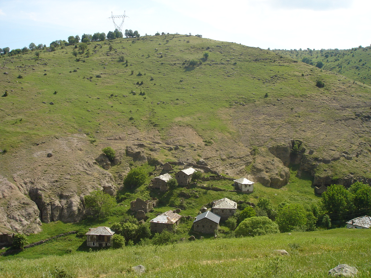 village of Polchishte in Mariovo region, Macedonia